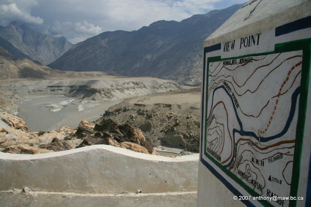 Mountain convergence point